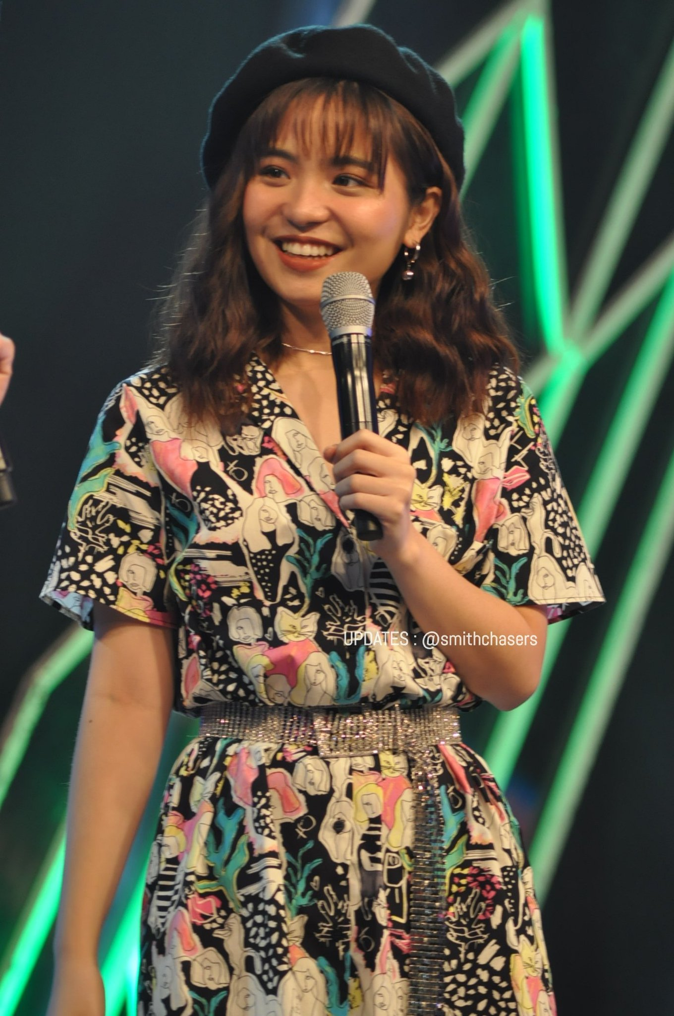 Sharlene San Pedro on iWantASAP in November 2019